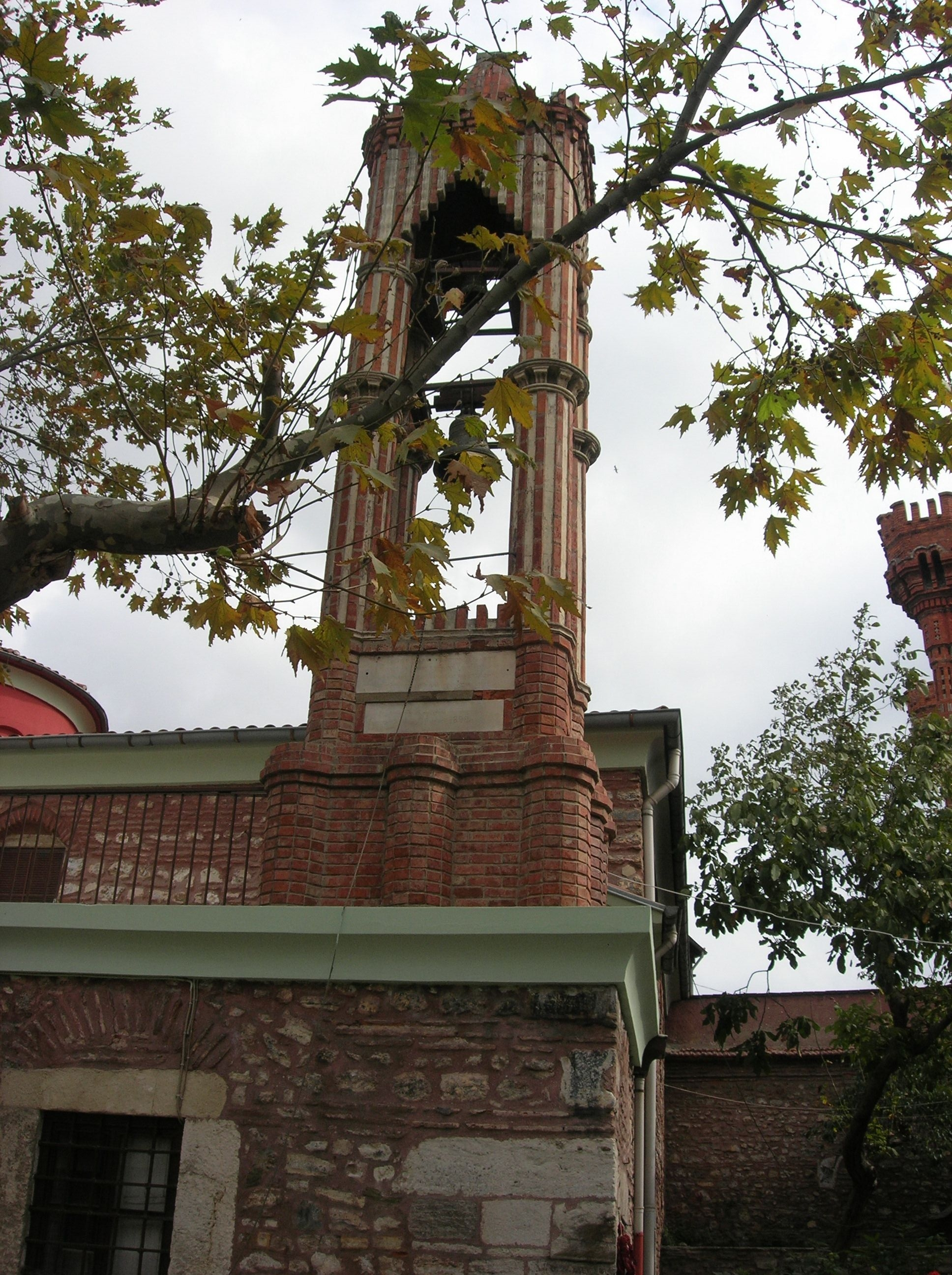 The Bell tower of the Church of the St. Mary of the Mongols in Istanbul